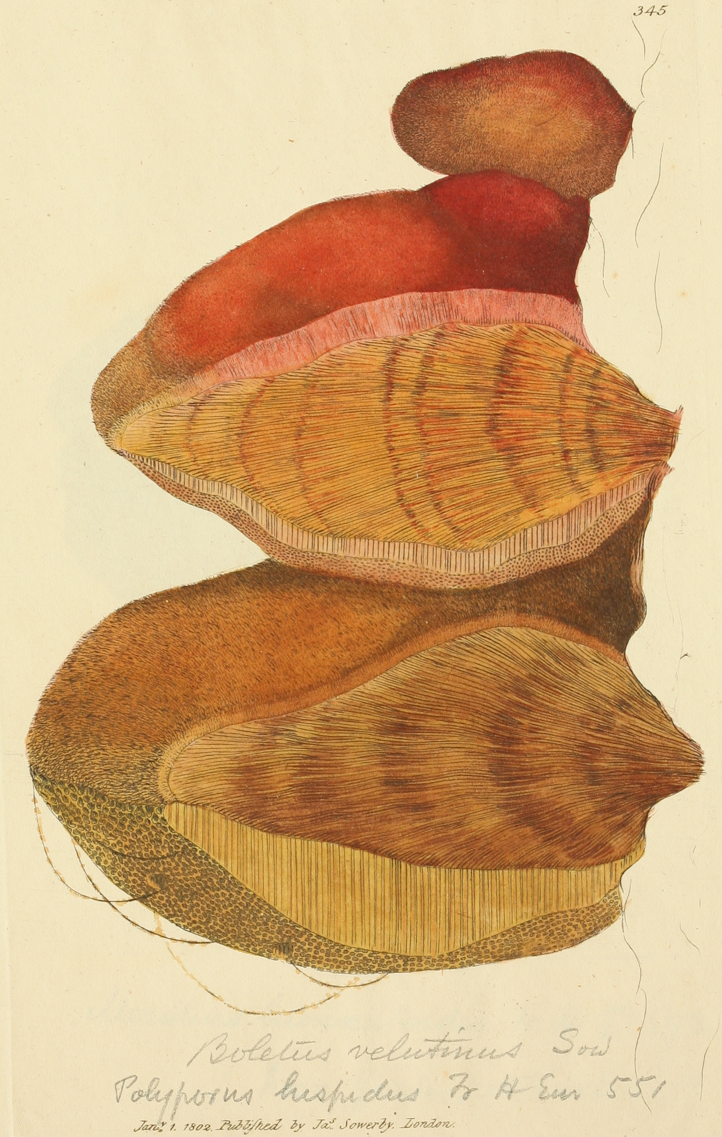 This is a plate from James Sowerby's Coloured Figures of English Fungi or Mushrooms.